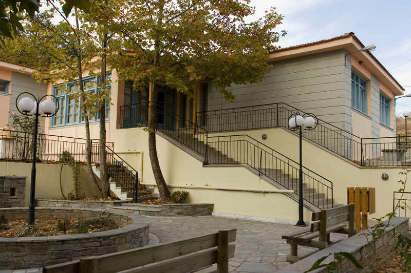 External view, image from the Natural History Museum, Paranesti, East Macedonia, Greece